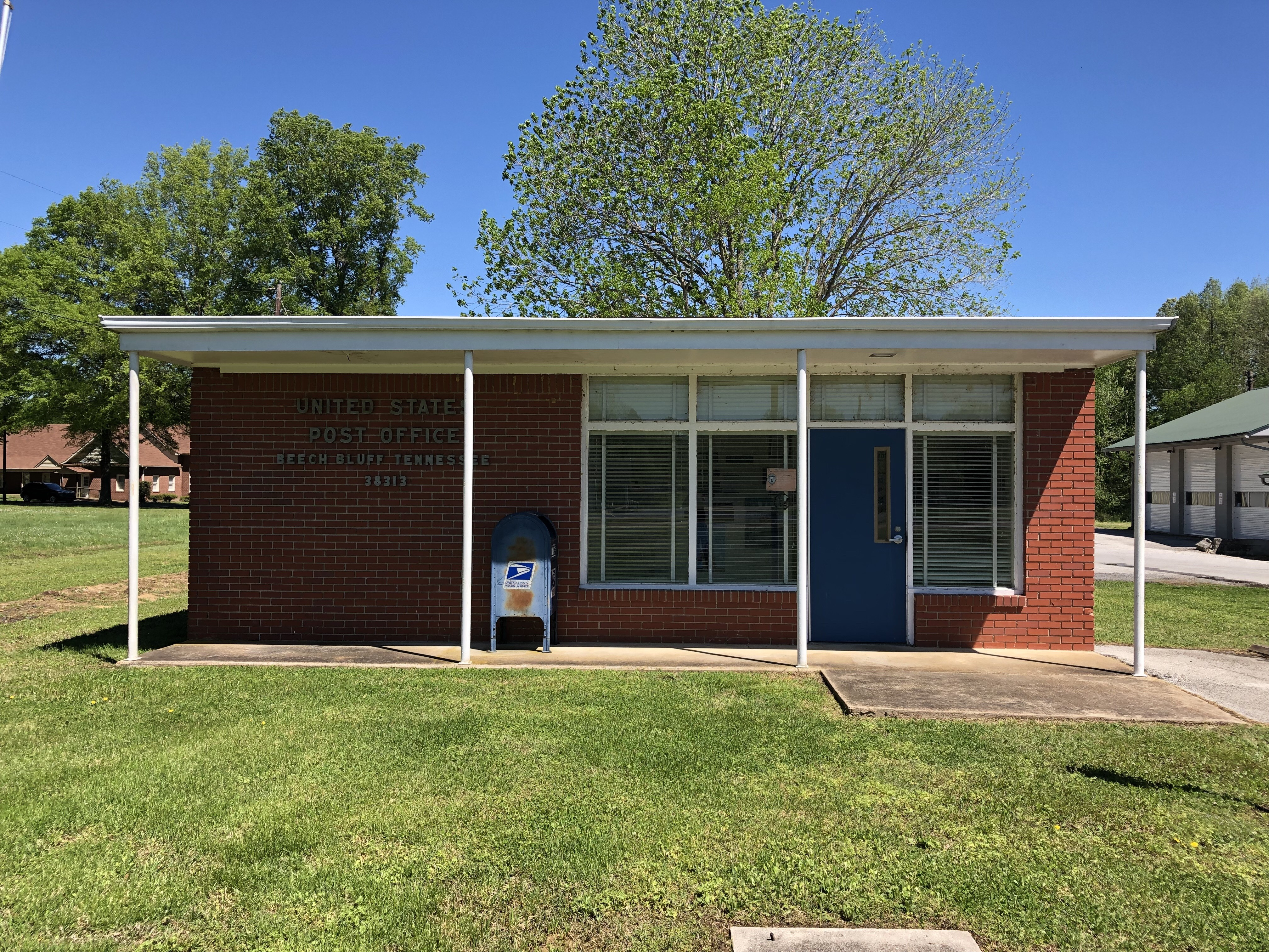 The post office in Beech Bluff, TN, in 2019, photographed by Chase Via (the uploader).